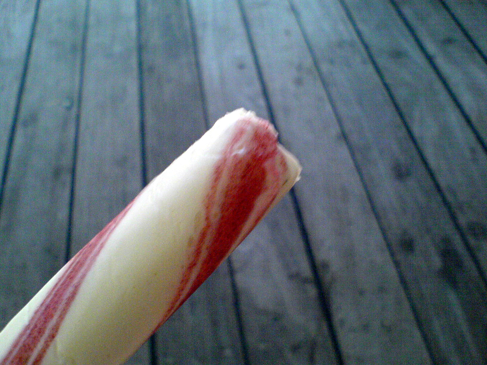 Unwrapped polkagris